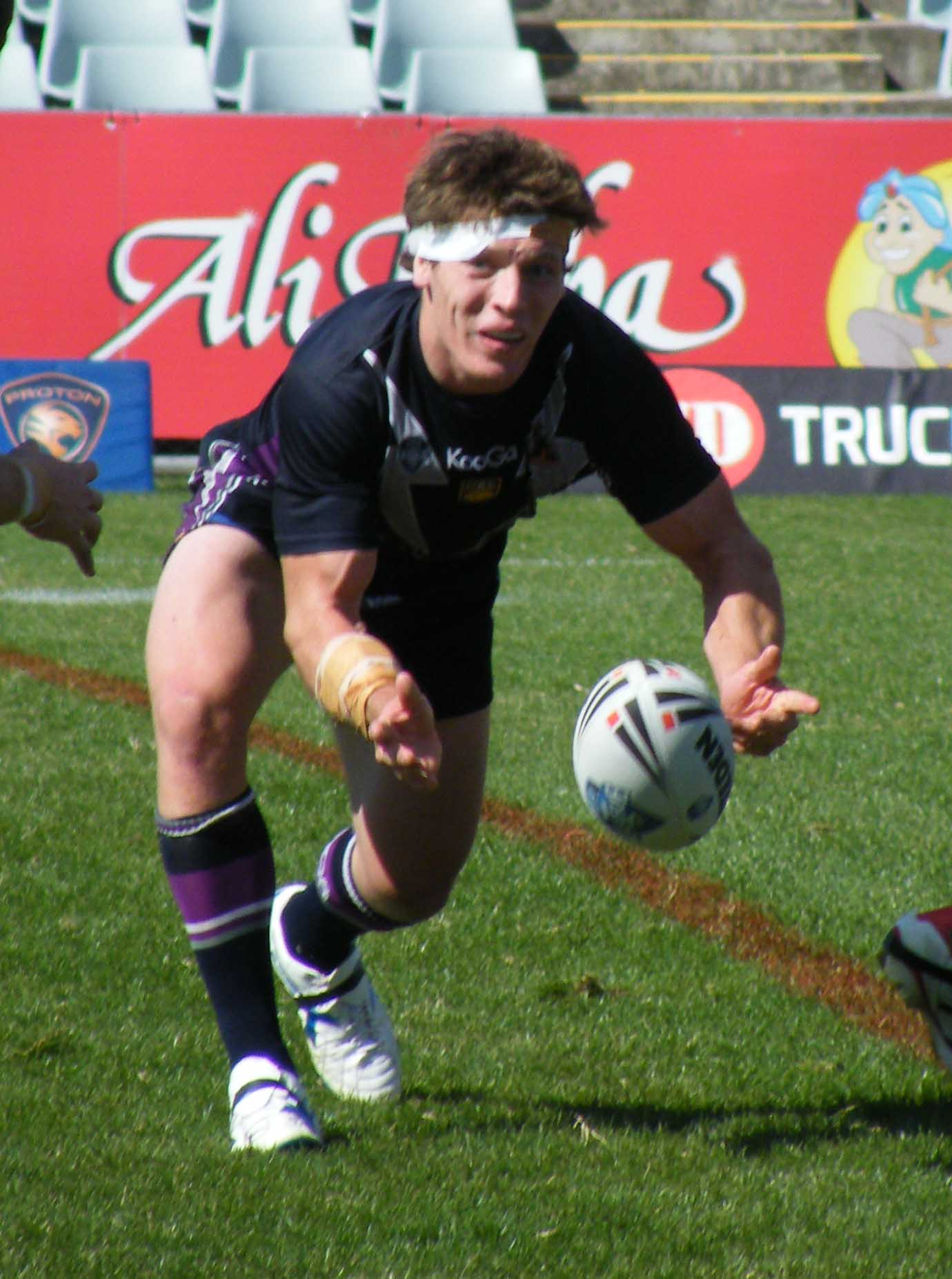 Rory Kostjasyn of the Central Coast Storm